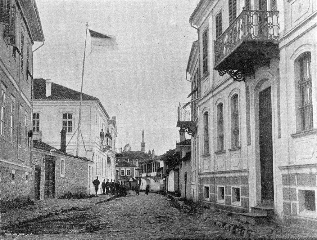 Nova iskra